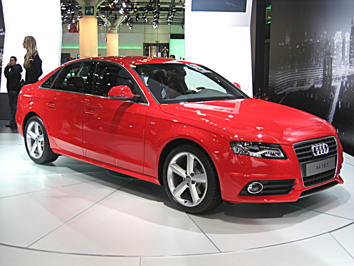 Subject:Audi A4 (B8 Series) Author:Luc106 Date:December 13th, 2007 Event:Motor Show Bologna 2007 Place/Country: Bologna, Italy I release all rights in the public domain.